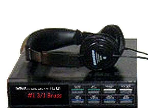 Yamaha FB-01 FM Sound Generator Original description: “Recording rack, 2009-12-08 (by Jordan Colburn)”